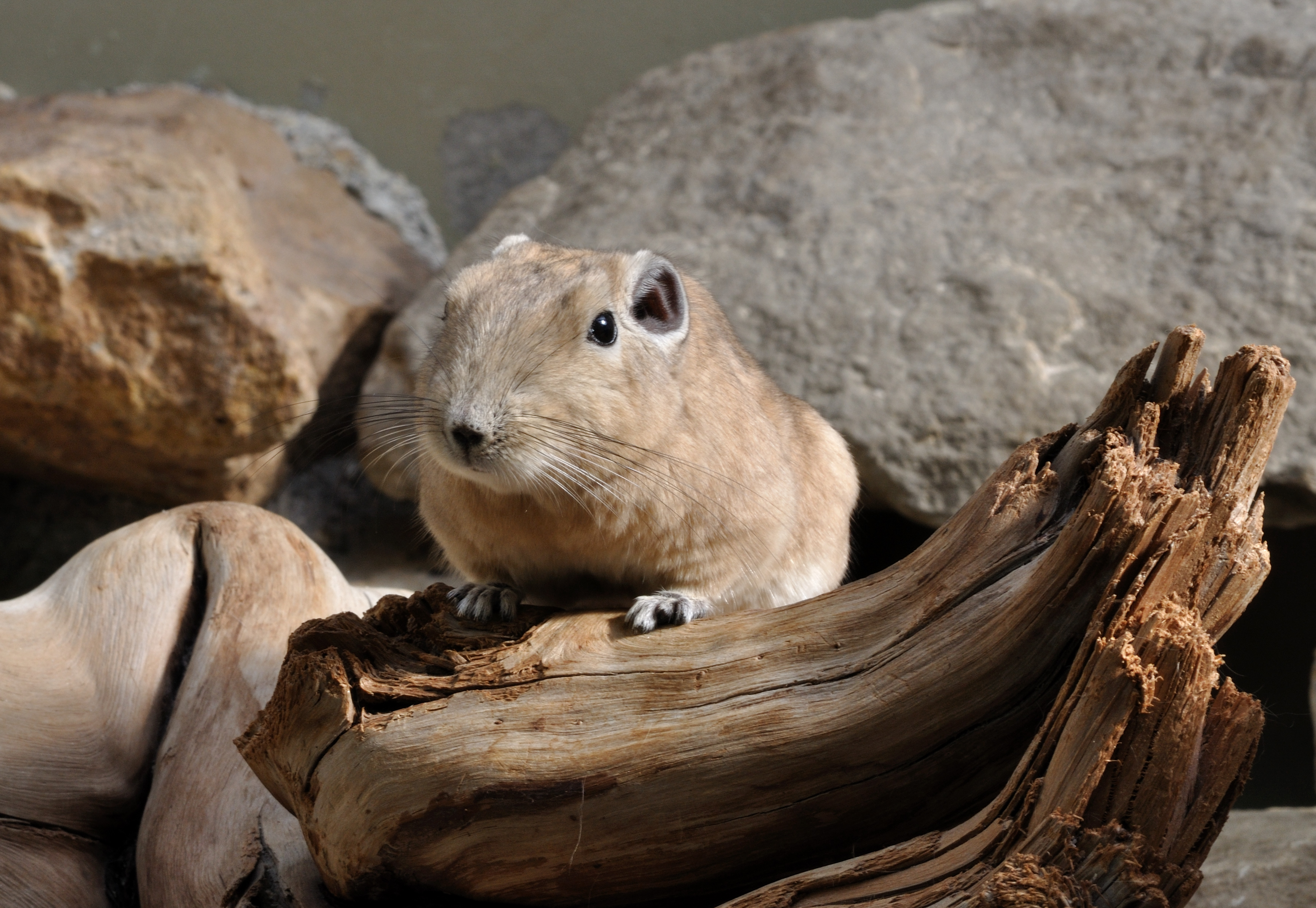 Gundi (Ctenodactylus gundi) in the Wilhelma, Stuttgart, Germany.